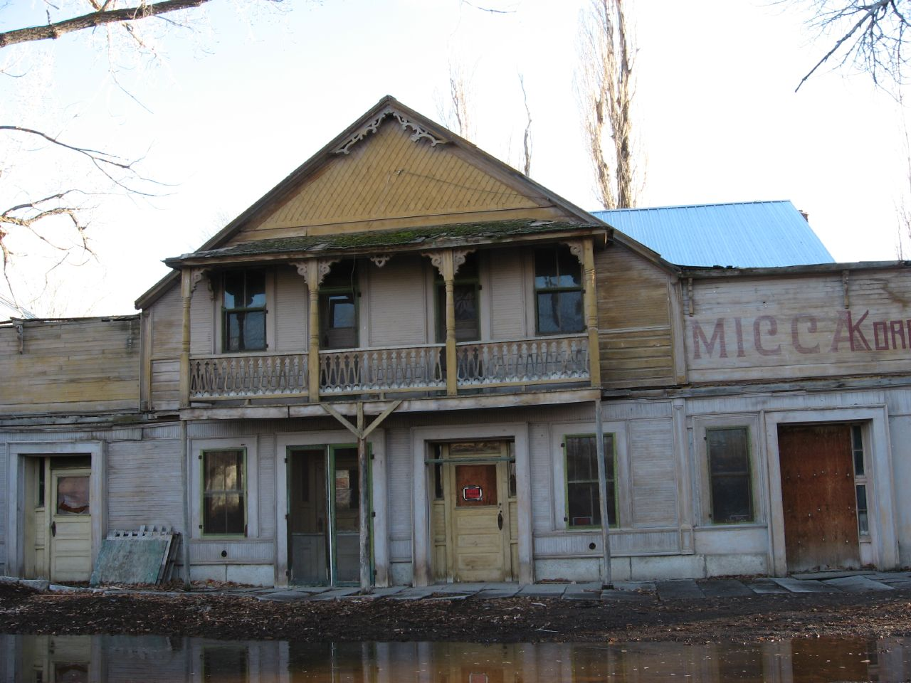 Micca House, a historic building in Paradise, Nevada. Paradise Valley, Nevada is an isolated and picturesque hamlet in northern Nevada.